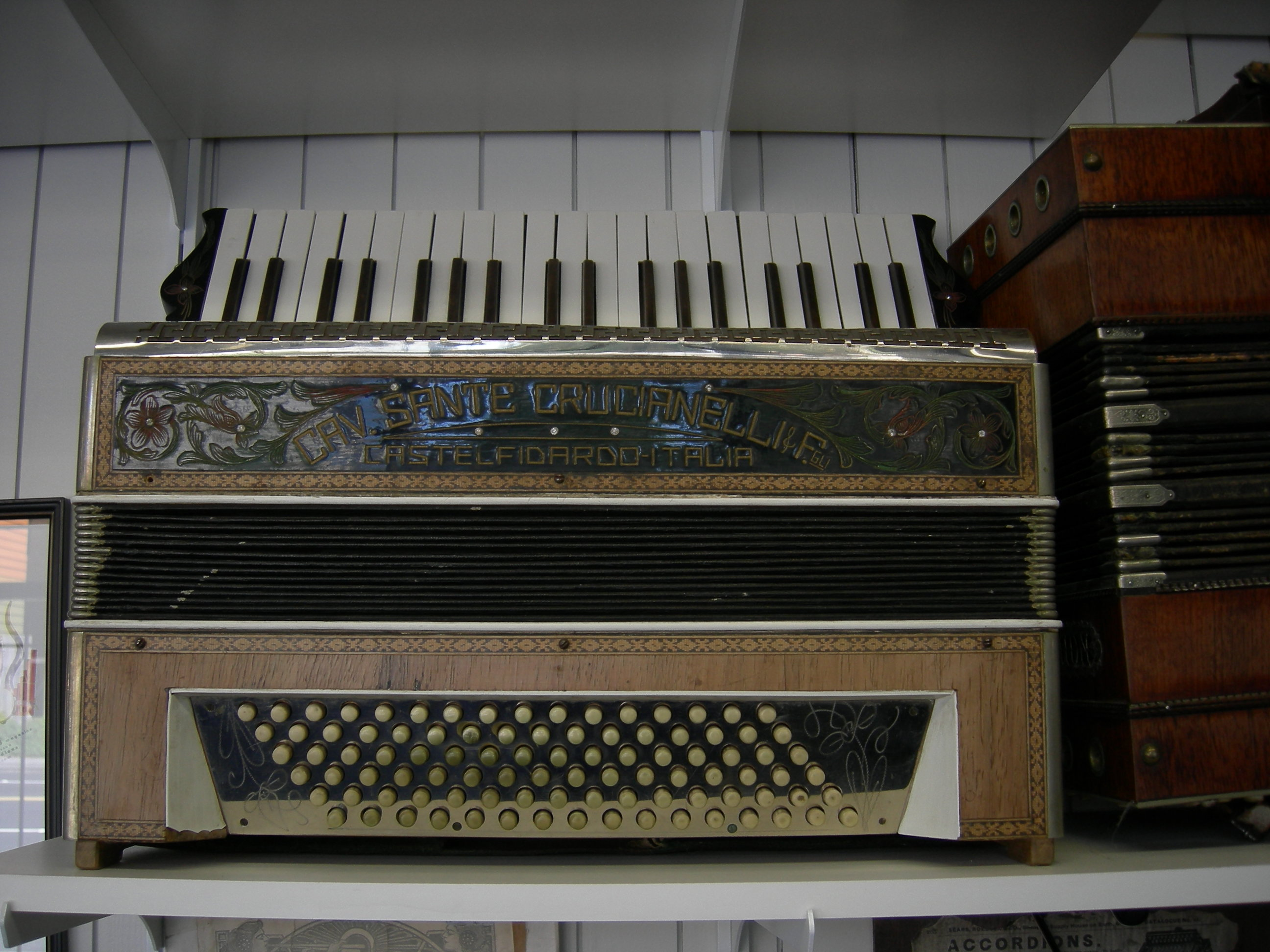 Old accordion in the collection of Petosa Accordions, Seattle, Washington, on display in their shop. Markings on it say "Cav. Sante Crucianelli & Fgli." ("Cavaliere (= Sir) Sante Crucianelli & Sons Company"), "Castelfidardo, Italia". If someone knows more about accordions, please feel free to enhance the description.